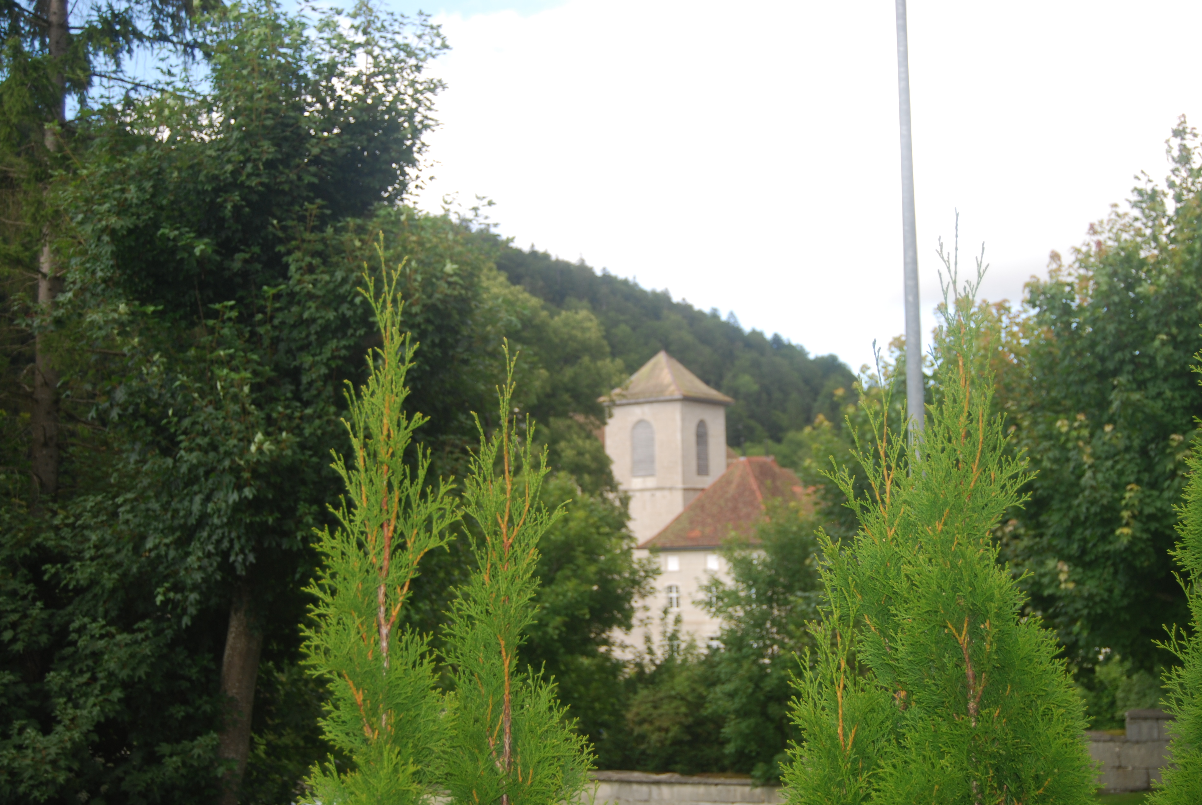 Abbey of Bellelay, municipality of Saicourt, canton of Bern, SwitzerlandEsperanto: Abatejo de Bellelay, komunumo Saicourt, Kantono Berno, Svislando